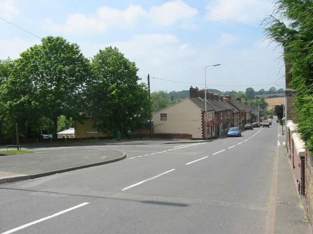 A52 at Kingsley The very busy A52 passes through the village of Kingsley in the Staffordshire moorlands. This view is to the west towards Cellarhead. To the east of Kingsley is Froghall, with its preserved railway and the wharf on the Cauldon canal.